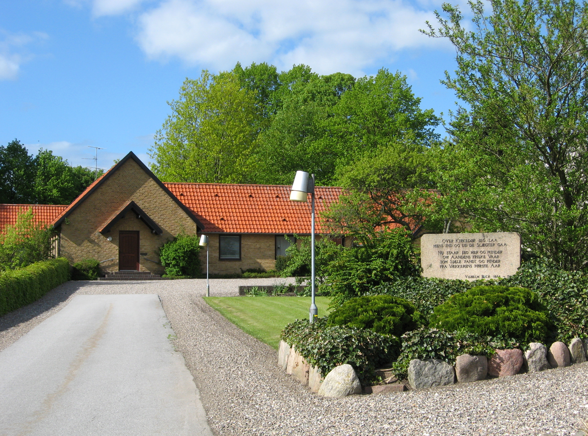 Ørum Kirke in Ørum Sogn in Nørre Djurs Kommune on Djursland, Denmark. Memorial northwest of the church, in front of the rectory, for parish priest Vilhelm Beck (1828-1901), who was the parish priest 1866-74.